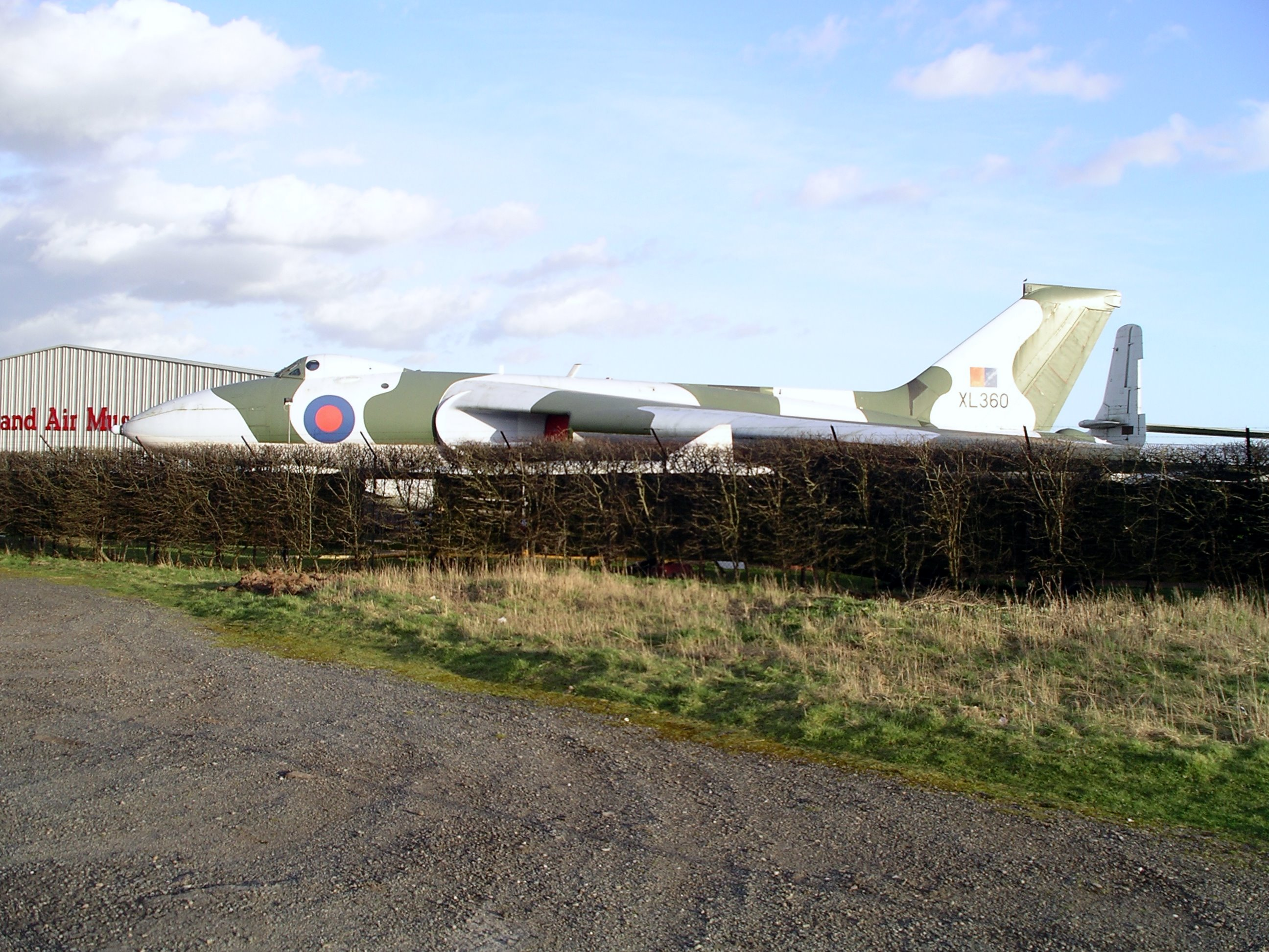 Avro Vulcan B.2 XL360 (side view) at the Midland Air Museum, Warwichshire.